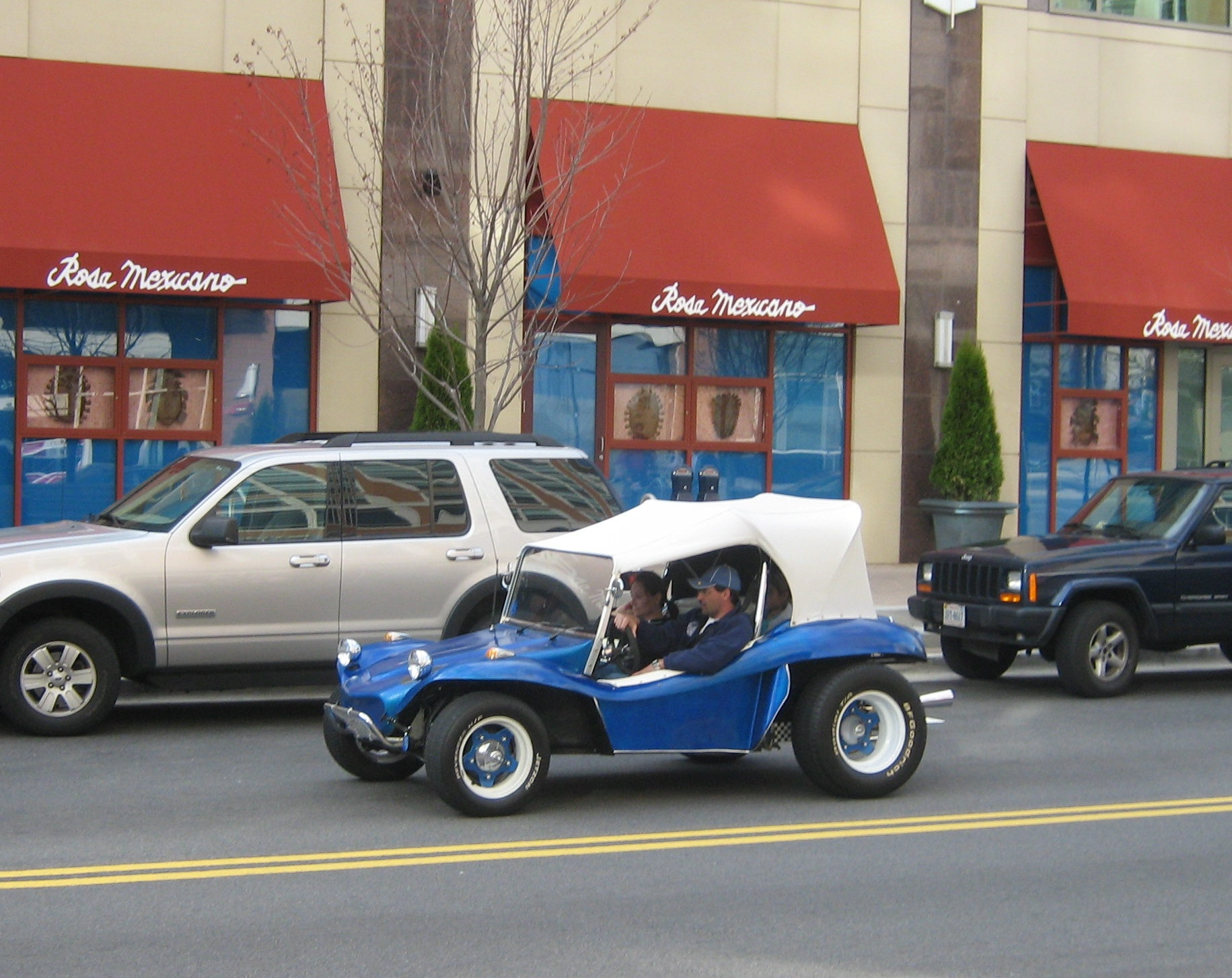 Woodford El Lobo Dune Buggy